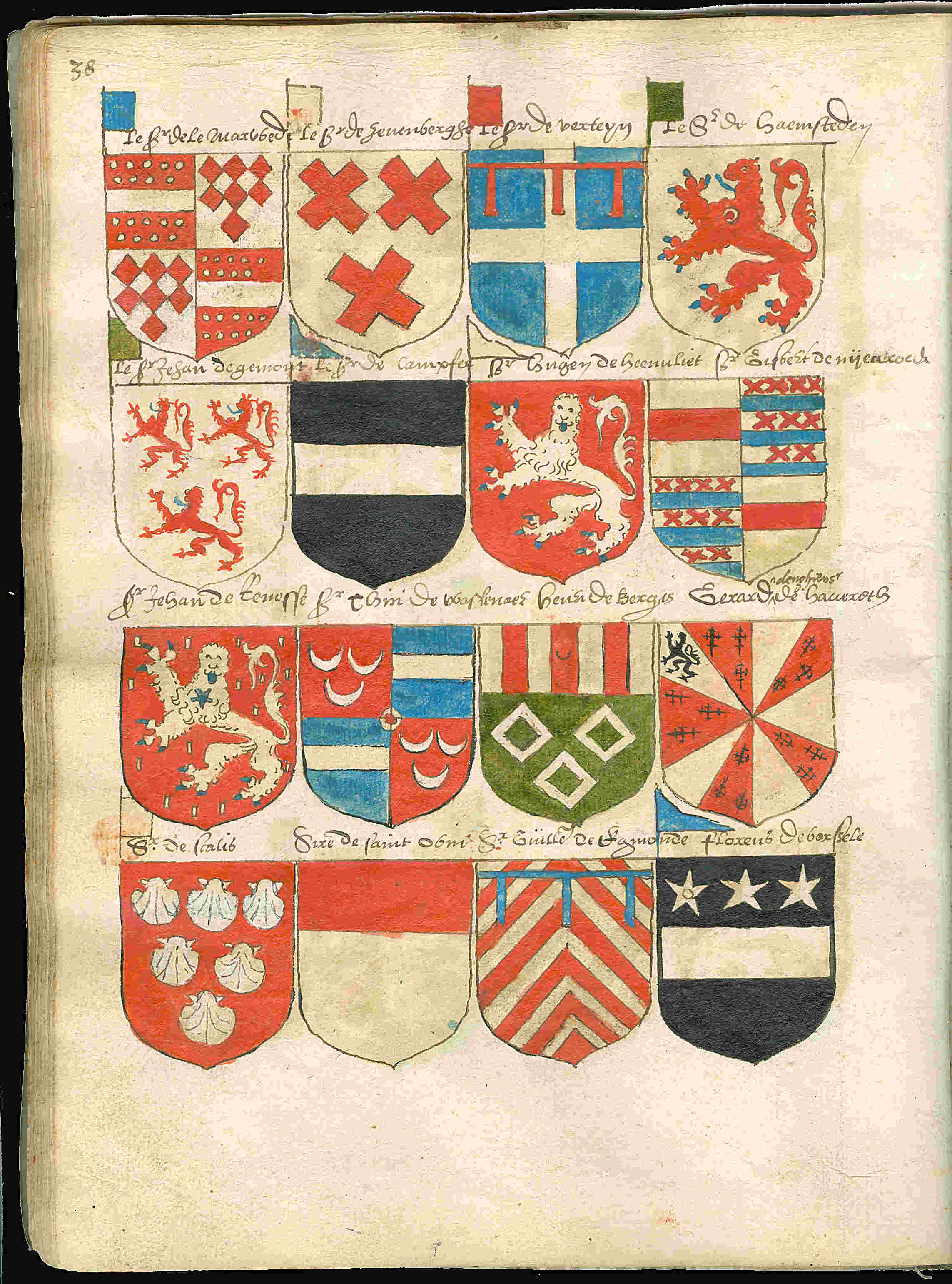 Page 38 from a copy of the Beyeren armorial / Wapenboek Beyeren from ca. 1600. The original Beyeren armorial from 1405 can be viewed at the website of the KB